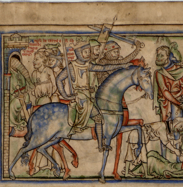 Sweyn Forkbeard